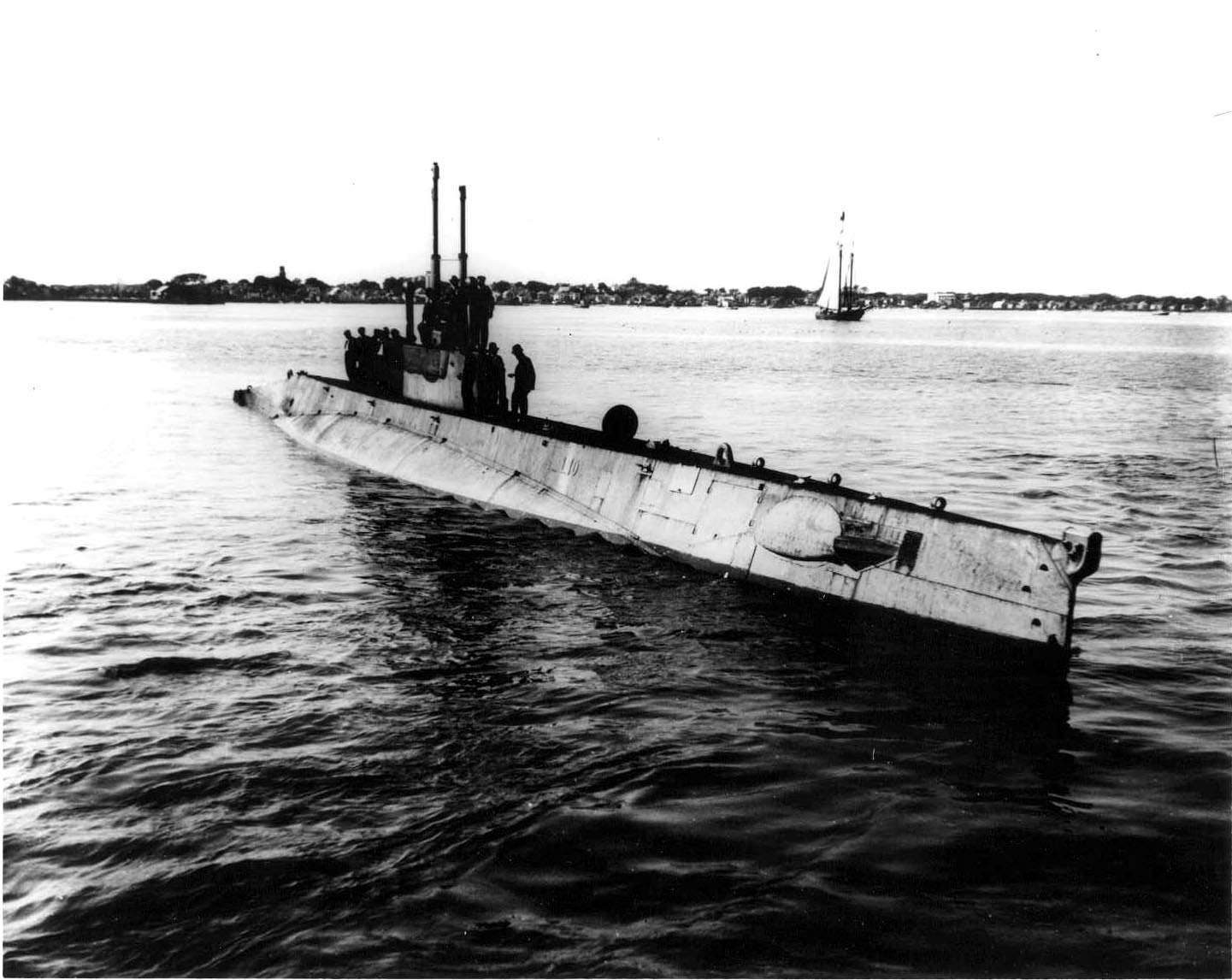 United States Navy submarine off Provincetown, Massachusetts.